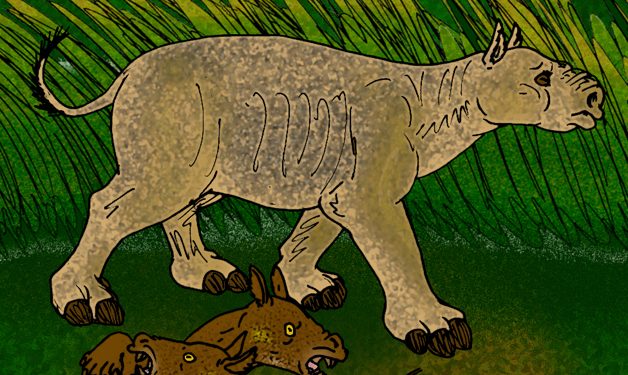 A reconstruction of the basal brontothere, Eotitanops borealis, of Early Eocene Wyoming.